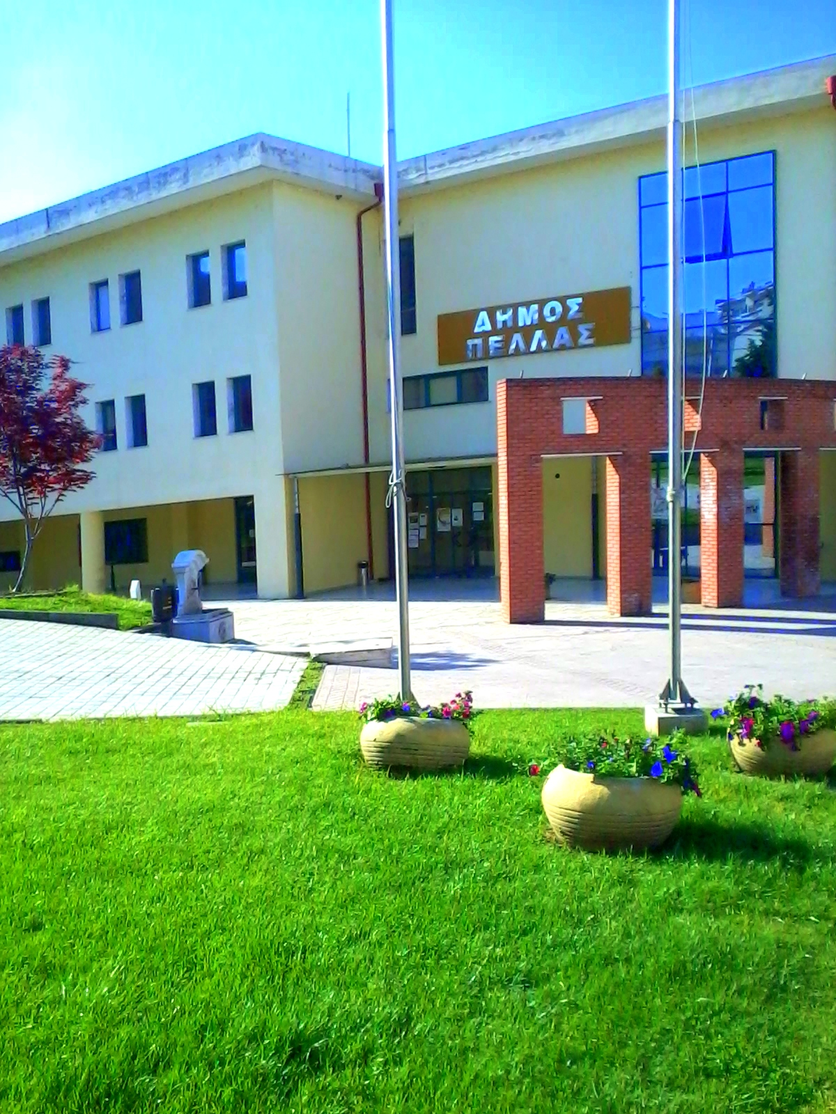 Municipality of Pella Giannitsa